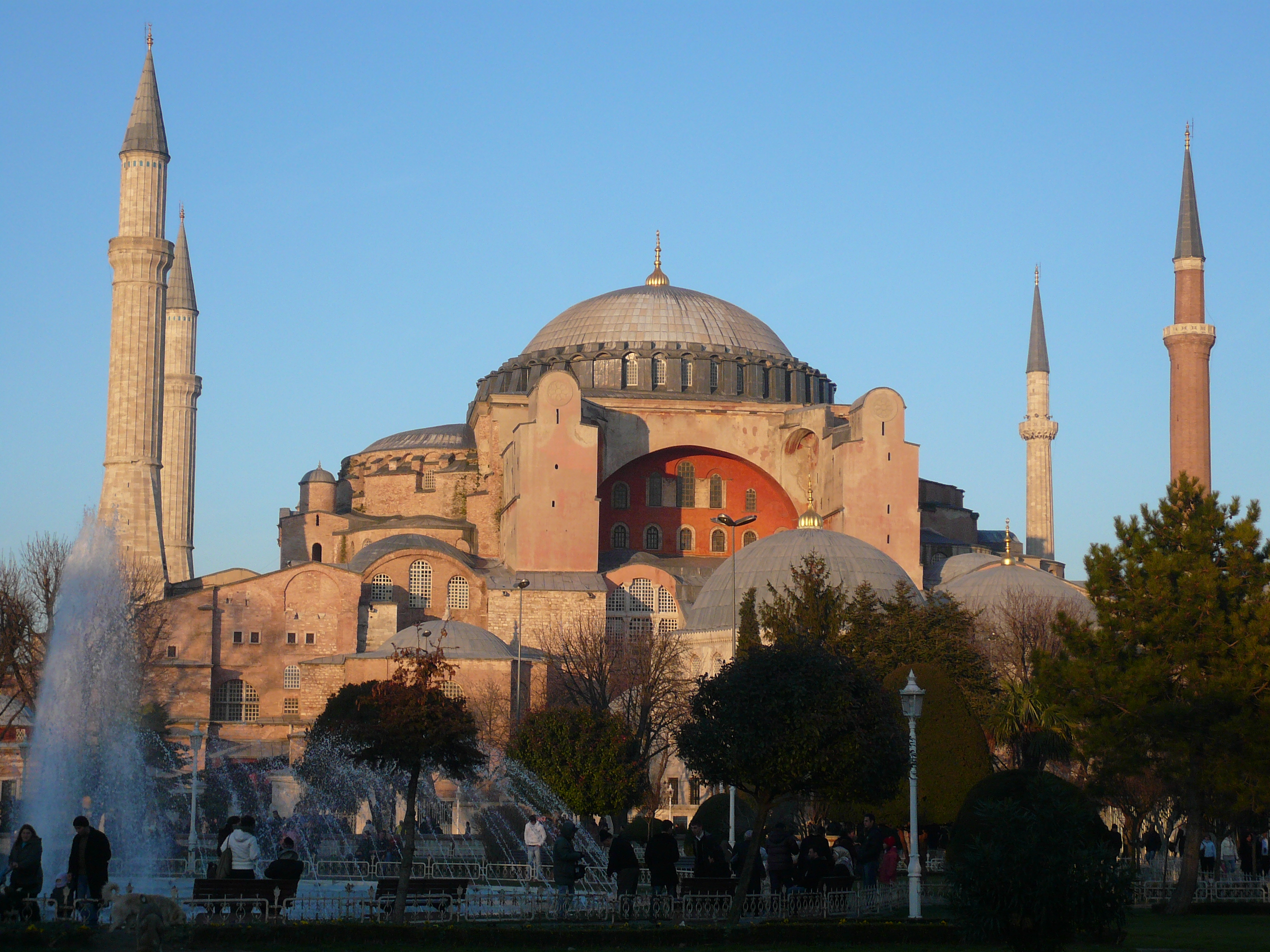 Hagia Sophia